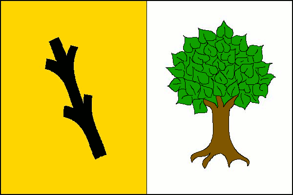 Municipal flag of Svratka town, Žďár nad Sázavou District, Czech Republic.